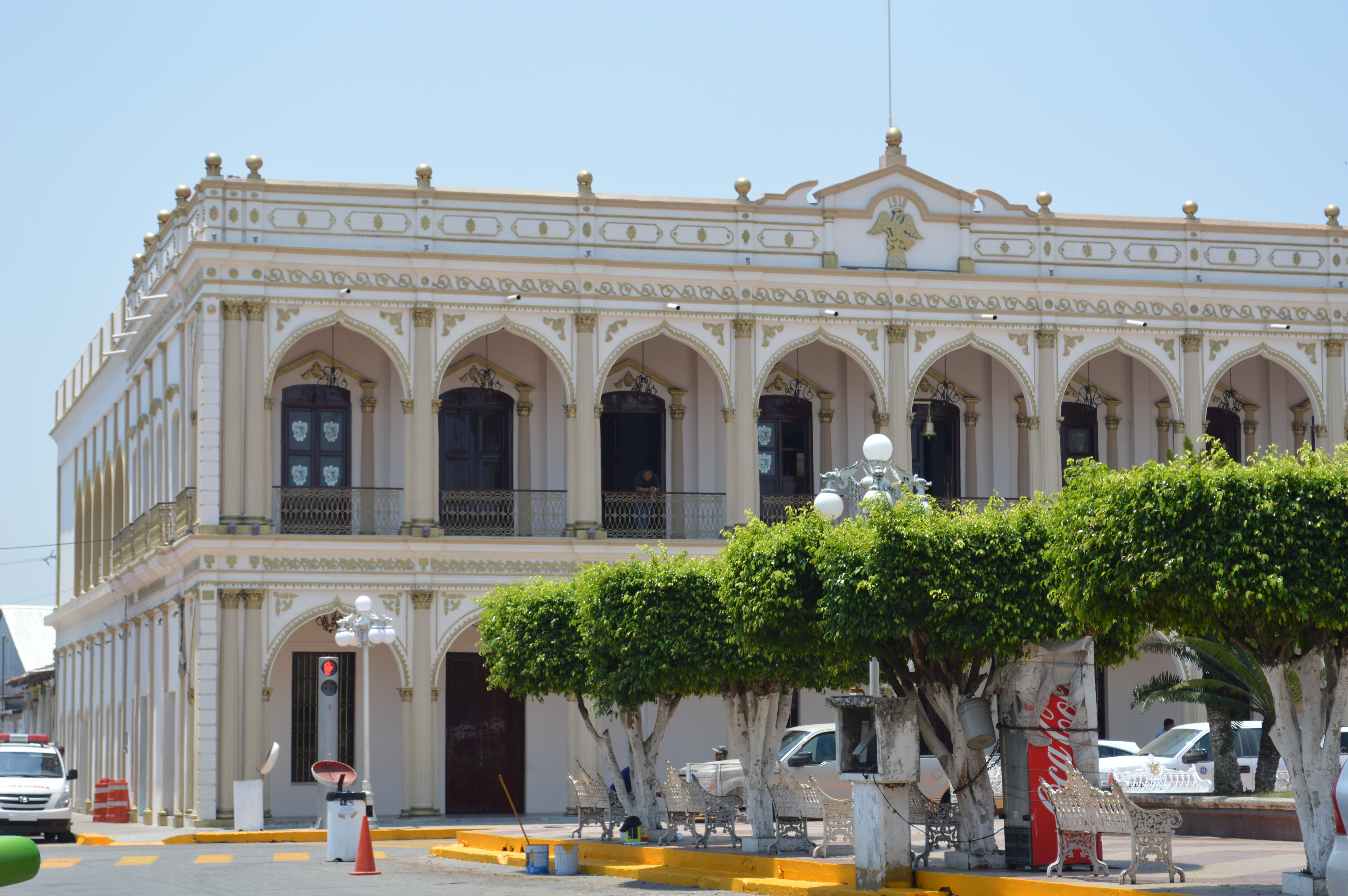 Municipal palace of Cosamaloapan, Veracruz, Mexico